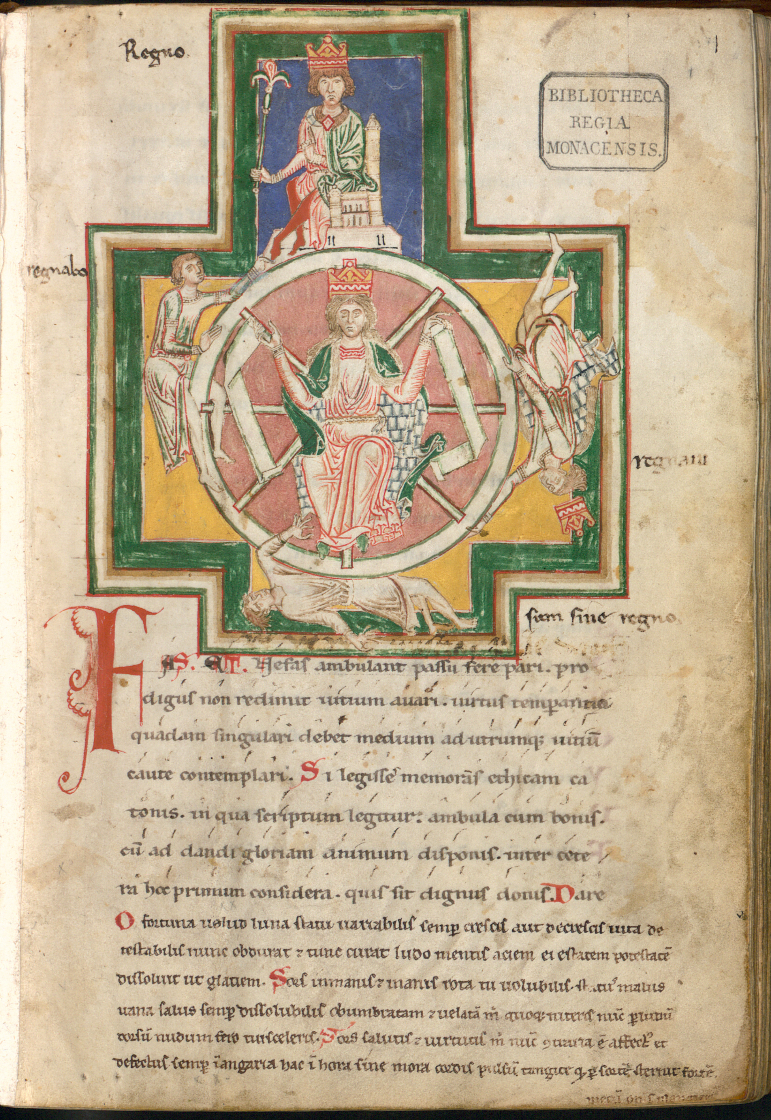 Bavarian State Library, Munich, Codex Buranus (Carmina Burana) Clm 4660; fol. 1r with the Wheel of Fortune